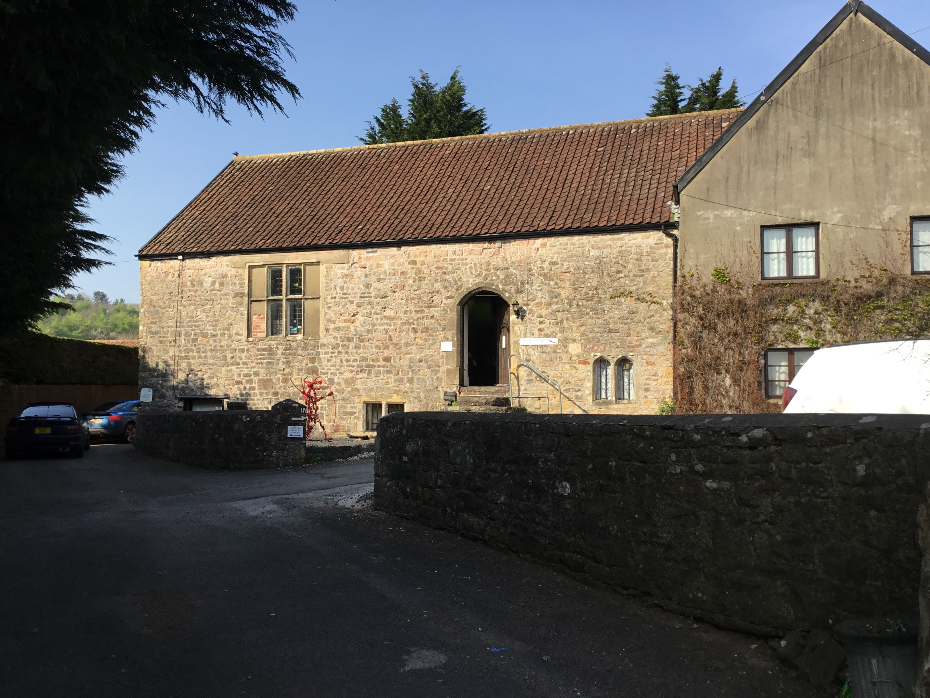 Manor Farm, Crick